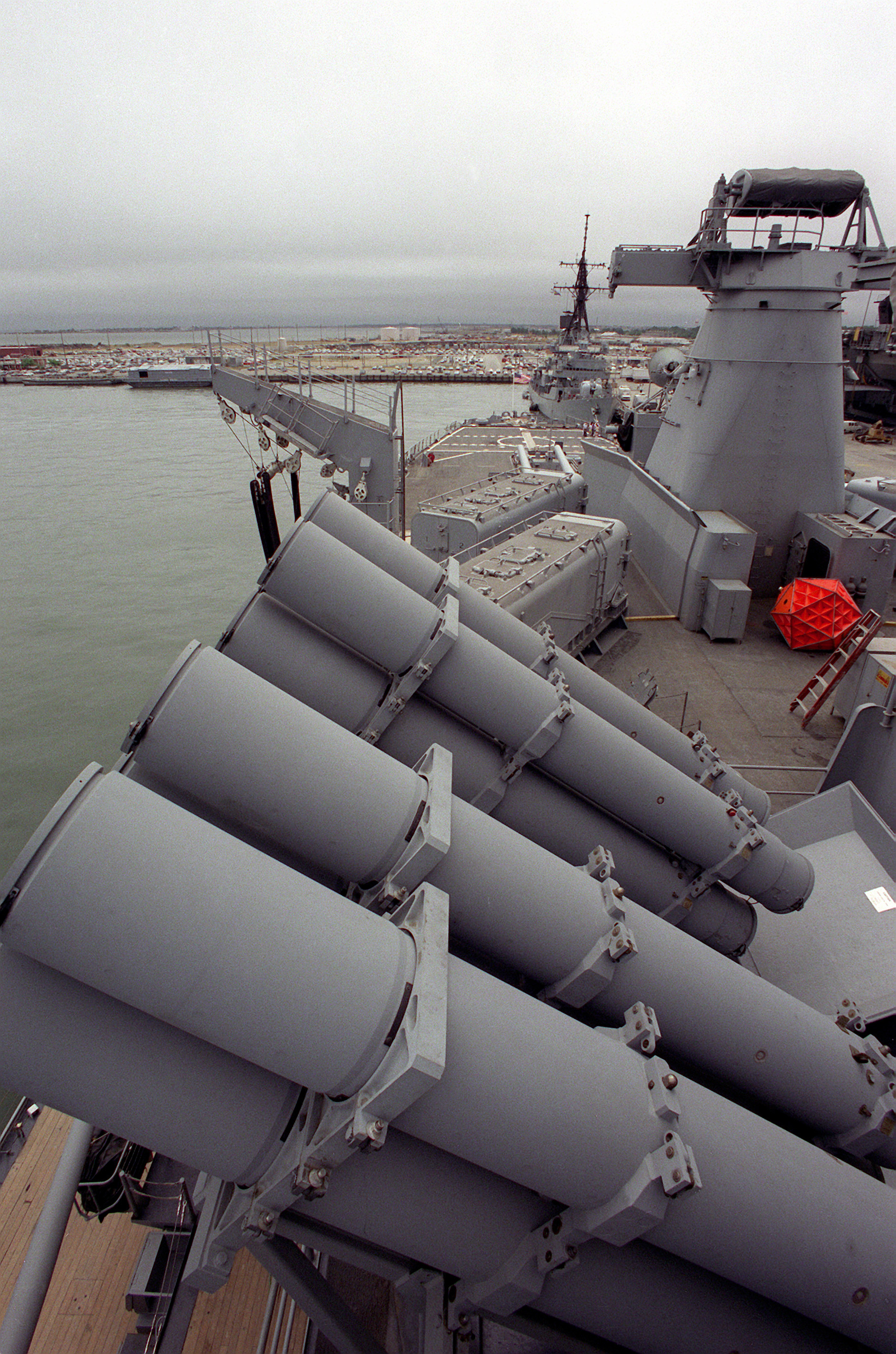 The starboard Mark 141 Harpoon surface-to-surface missile canisters, the No. 5 and No. 7 Mark 143 Tomahawk armored box launchers and underway replenishment station 11 on the battleship USS IOWA (BB-61). Location: NAVAL AIR STATION, NORFOLK, VIRGINIA (VA) UNITED STATES OF AMERICA (USA)